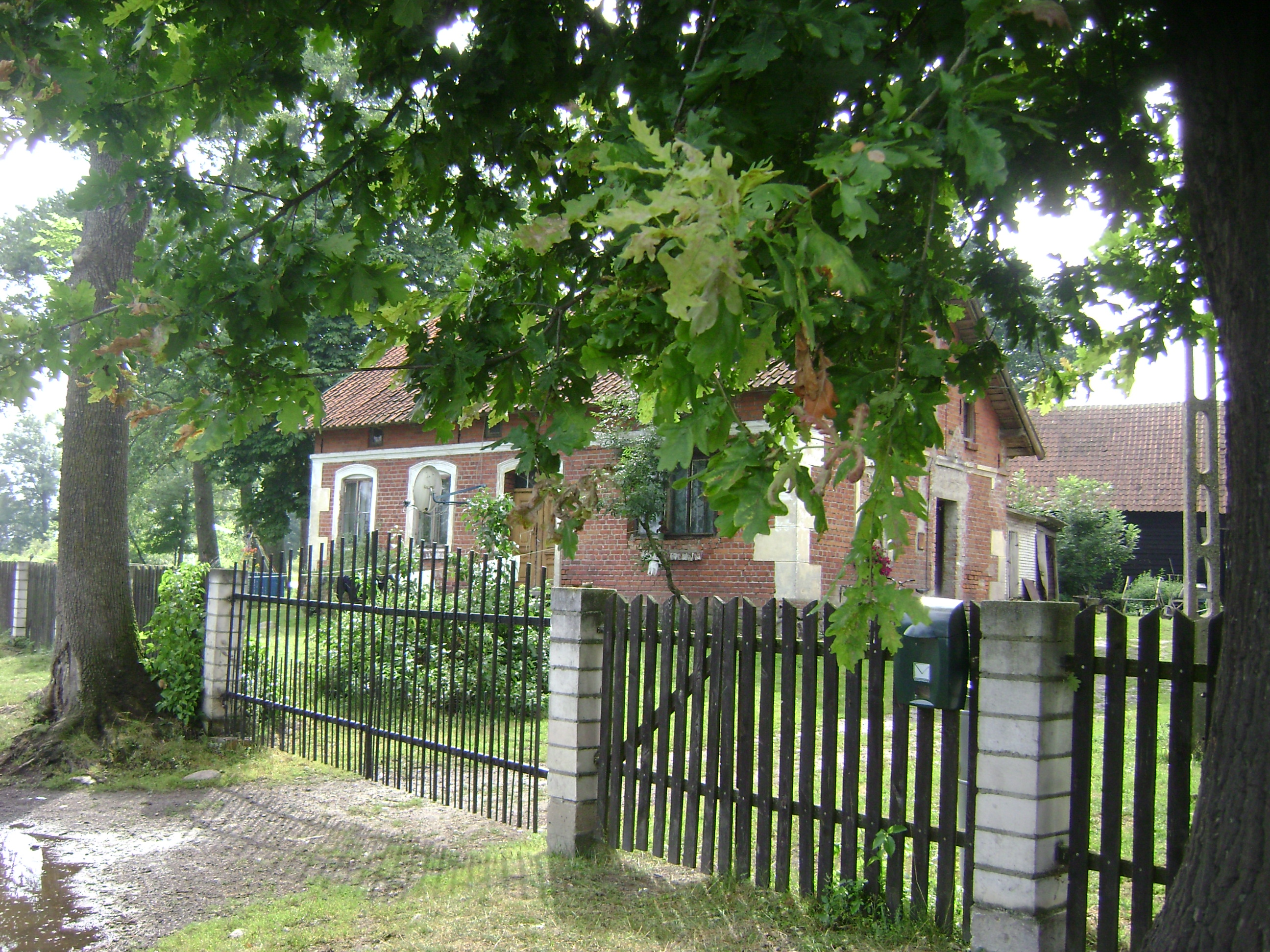 Poland. Gmina Jedwabno. Brajniki Village